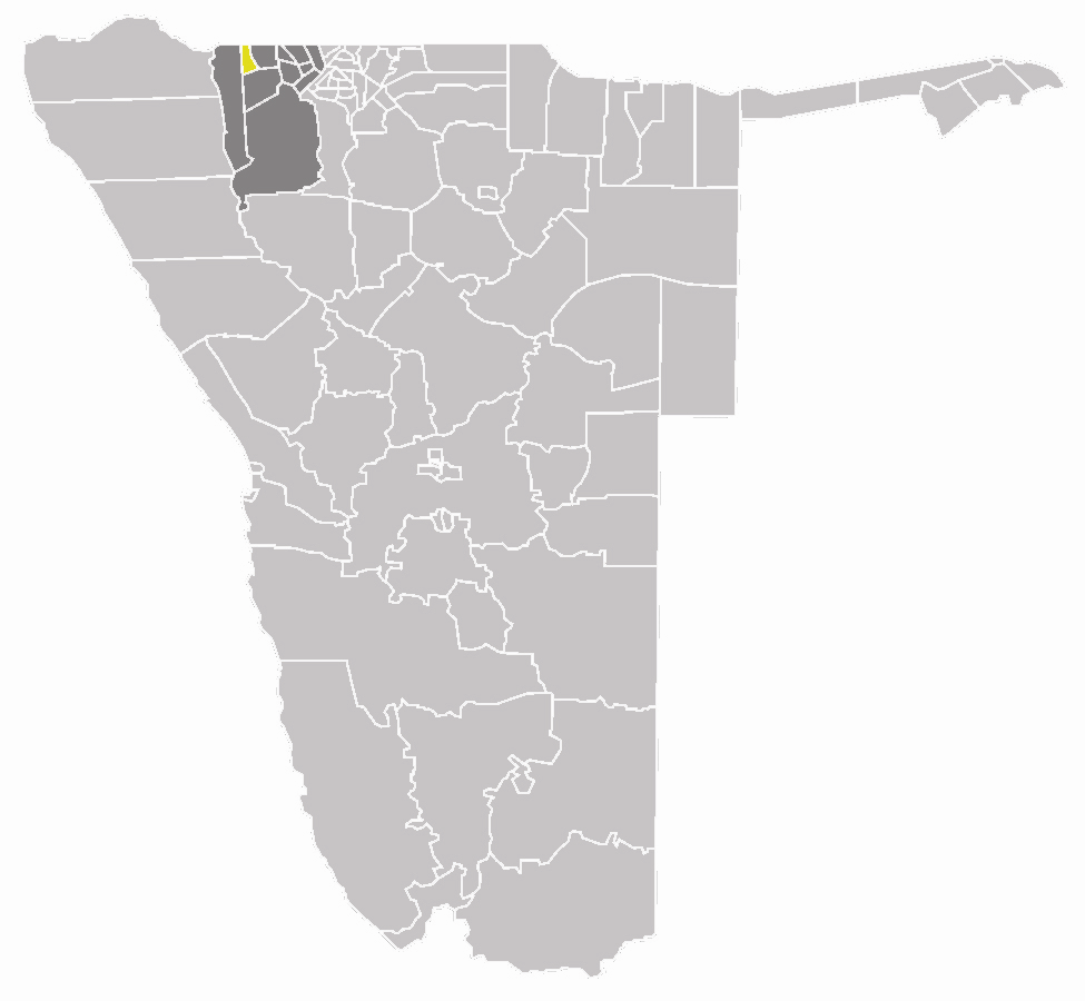 map of the Onesi constituency within the Omusati region, Namibia